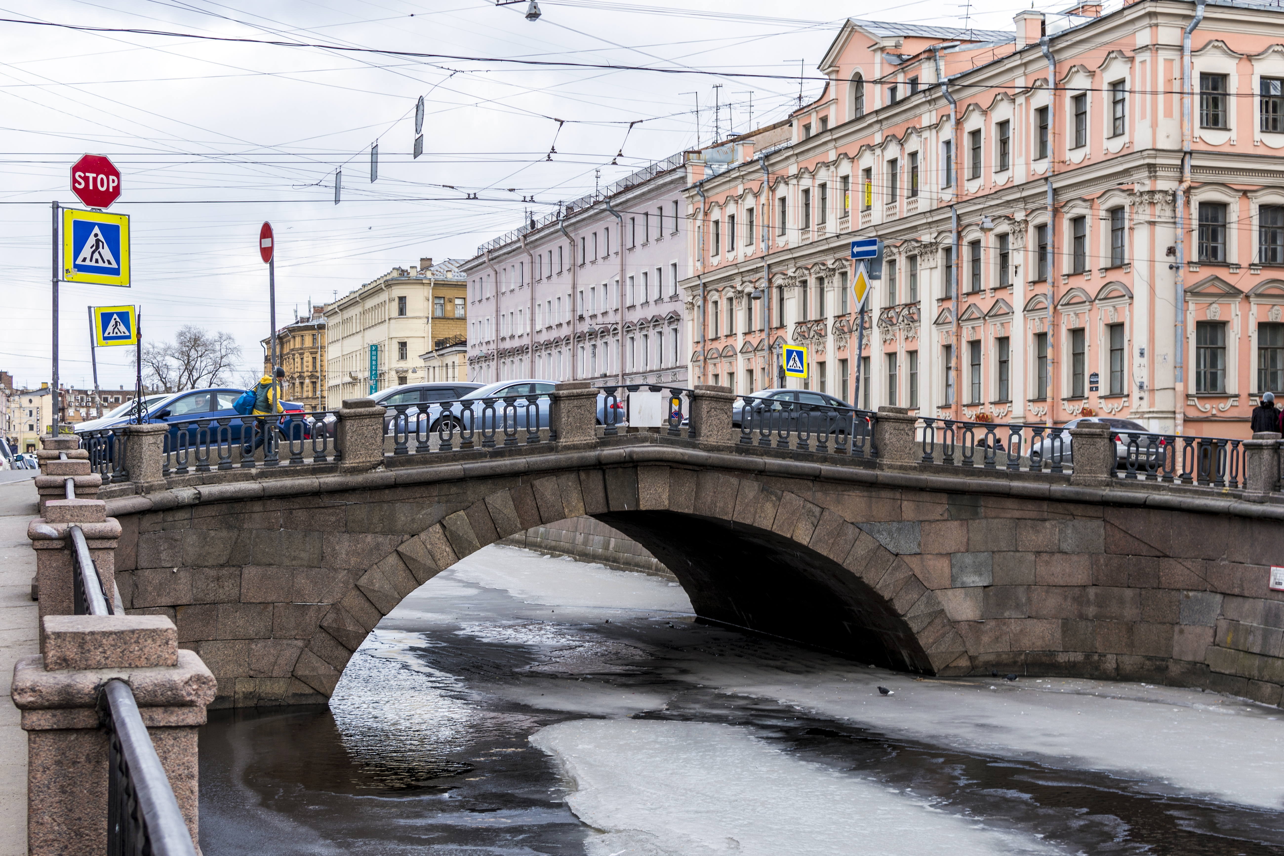 Kamenny Bridge in Saint Petersburg